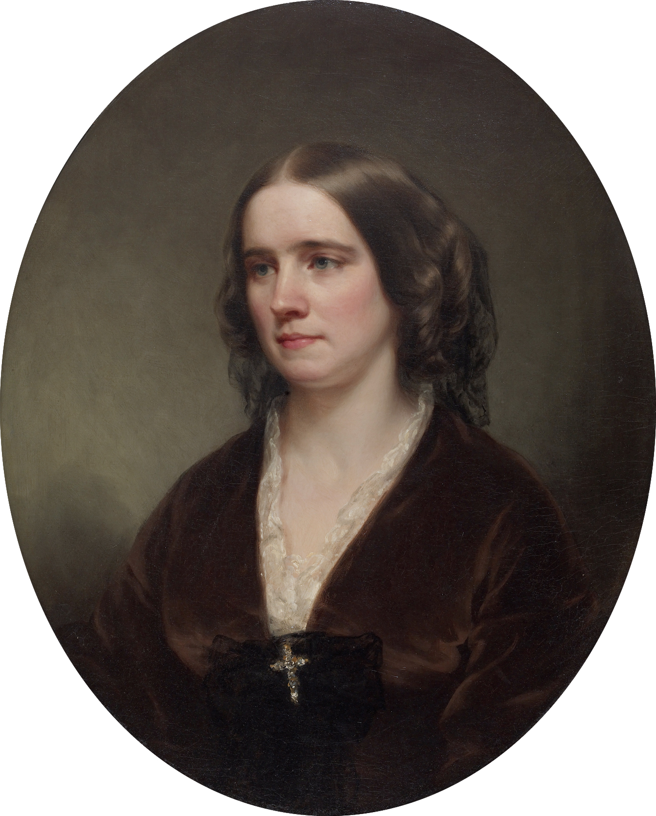 Ellen Harper Walters oil on fabric 91.5 x 78.7 cm circa 1859